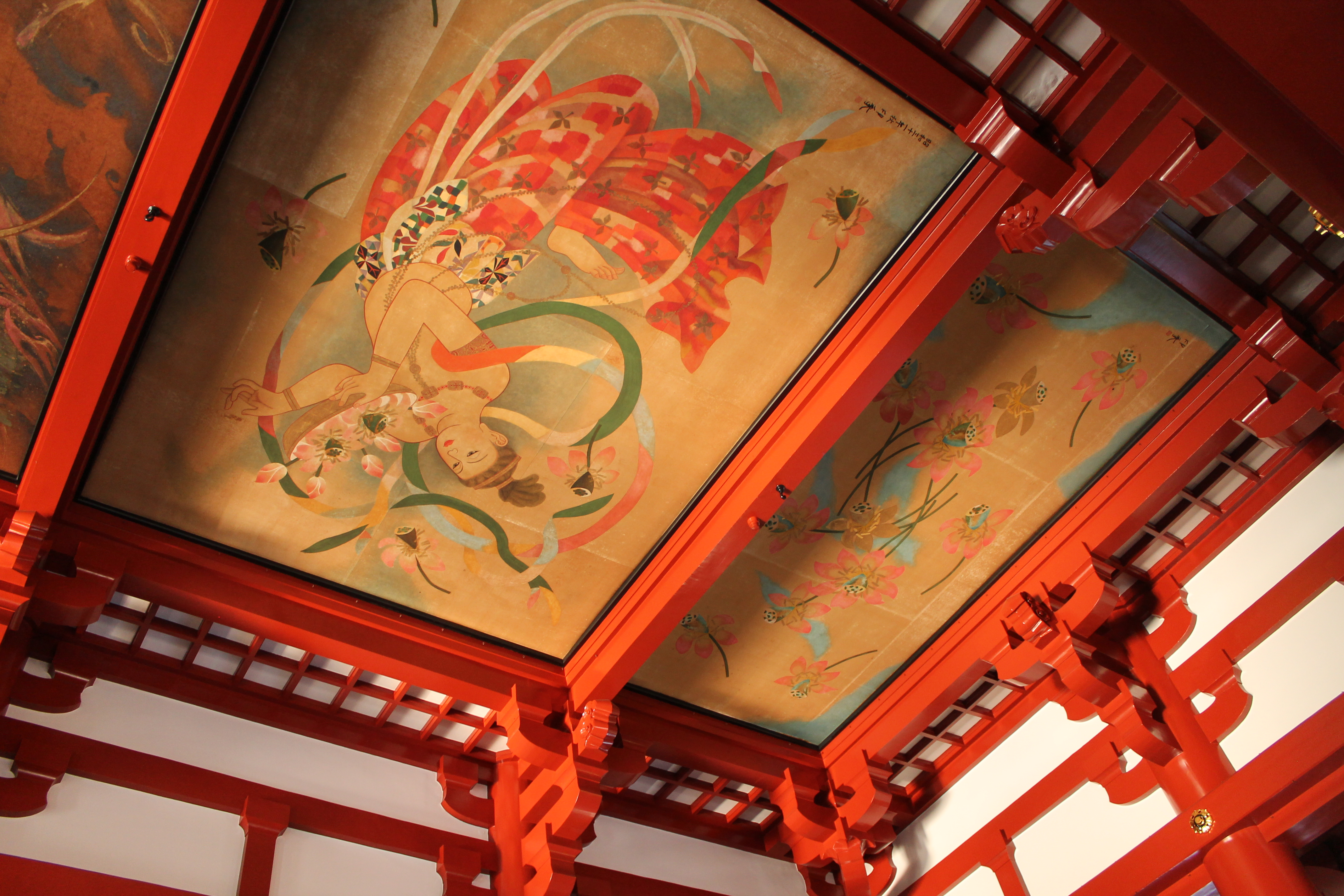 Ceilings at Sensō-ji